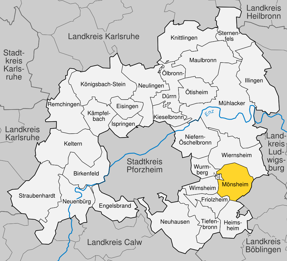 position of Mönsheim within distict of Enzkreis, Baden-Württemberg, Germany